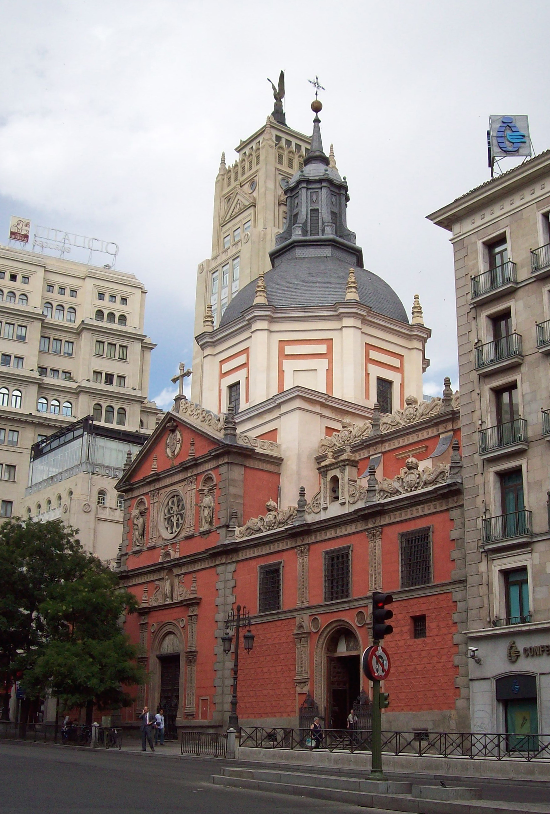 Façade of Iglesia de la Concepción Real de Calatrava or Iglesia de las Calatravas (a church), at 25 Calle de Alcalá (street) in Madrid (Spain). Building was projected in 1670 by Fray Lorenzo de San Nicolás and built between 1670 and 1678.